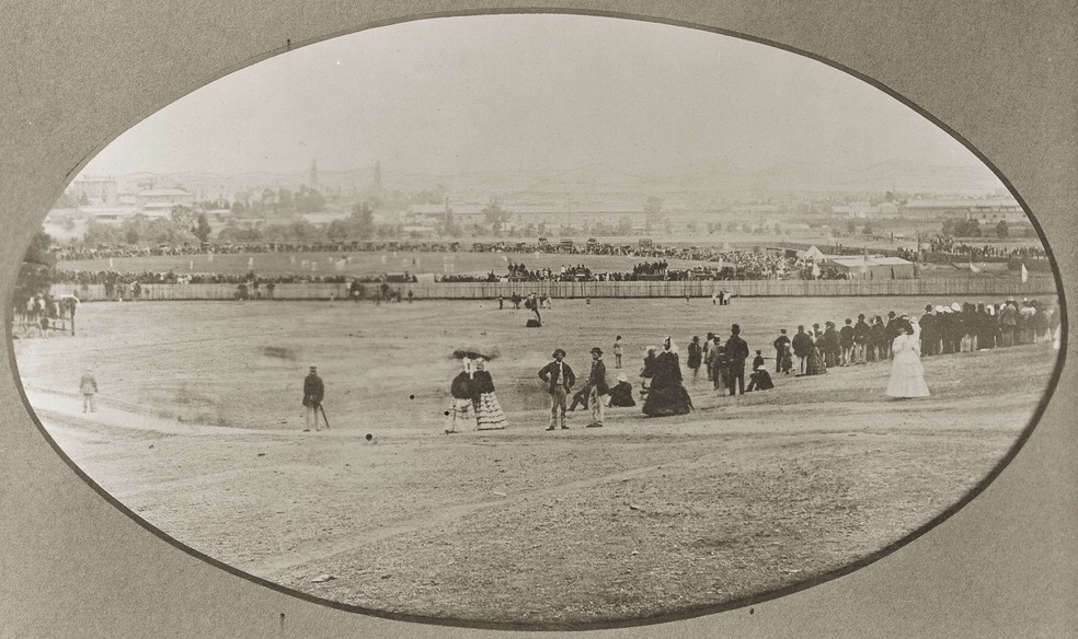 Photo from the first game involving an English side at Adelaide Oval in 1874.